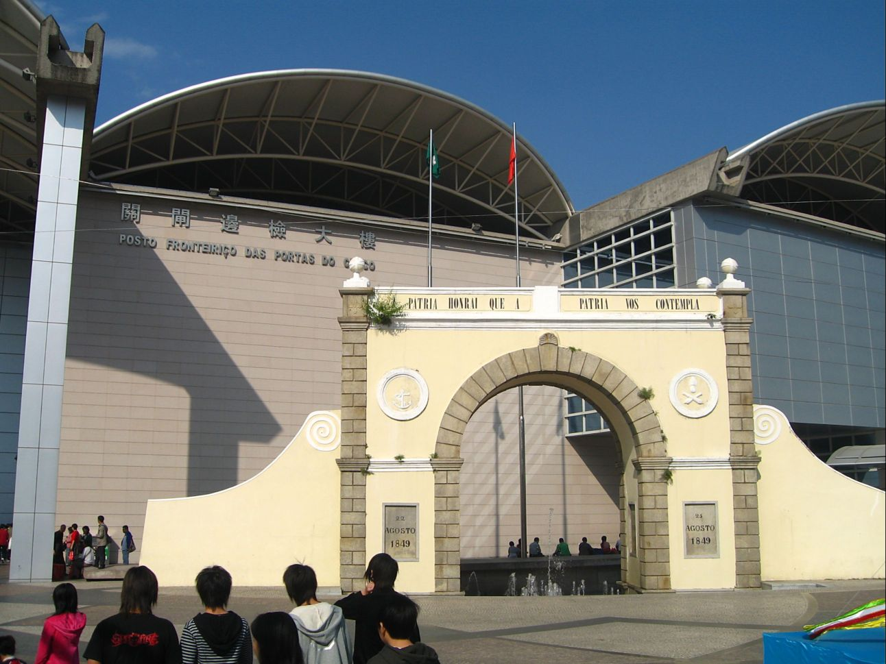 The old Barrier Gate (Portas do Cerco or "Gate of Seige") (in front) with the new Border Gate Frontier Checkpoint Building (behind) in Macau.